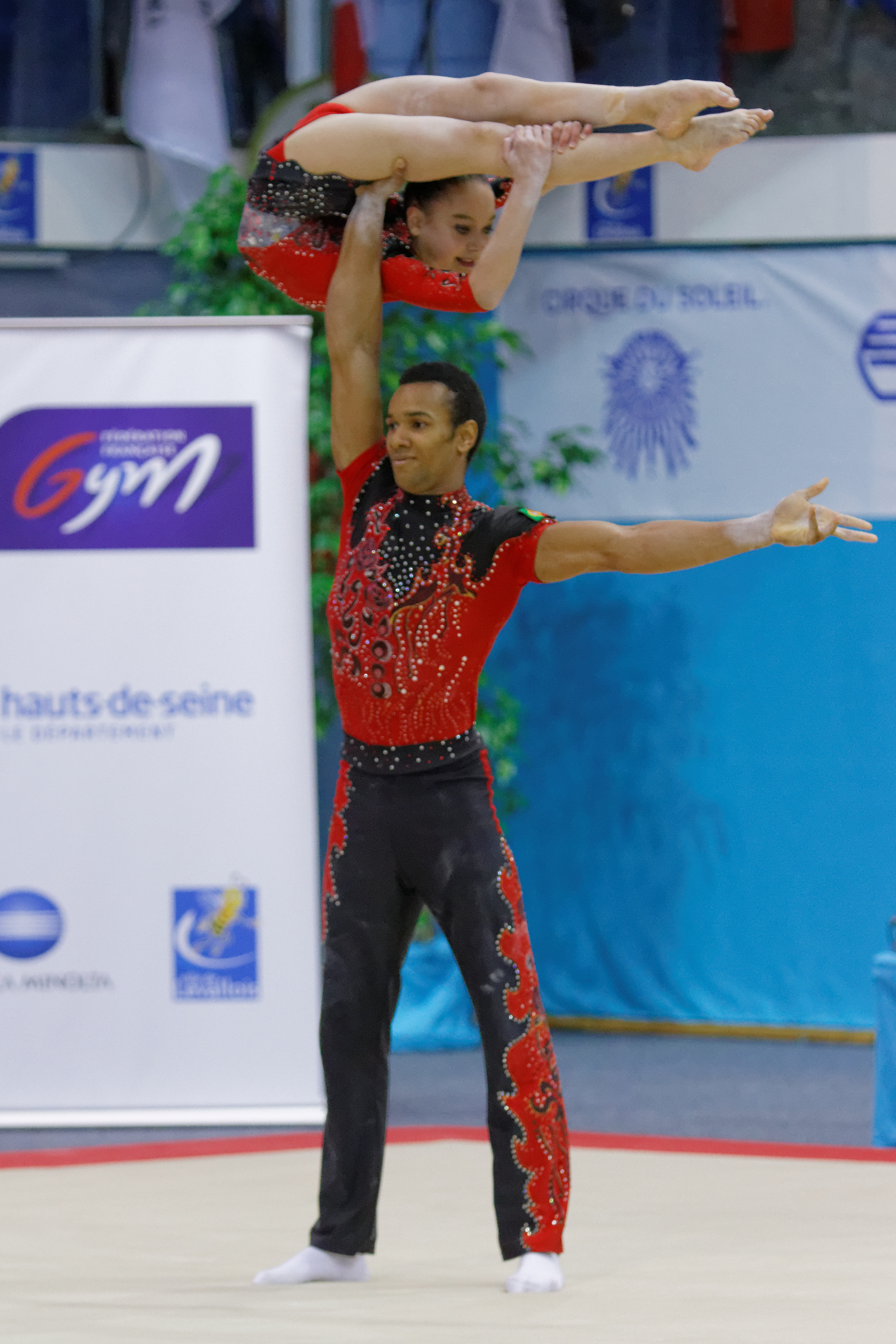 2014 Acrobatic Gymnastics World Championships, 10th-12 July, Levallois-Perret, France. Qualifications: mixed pair. Portugal.